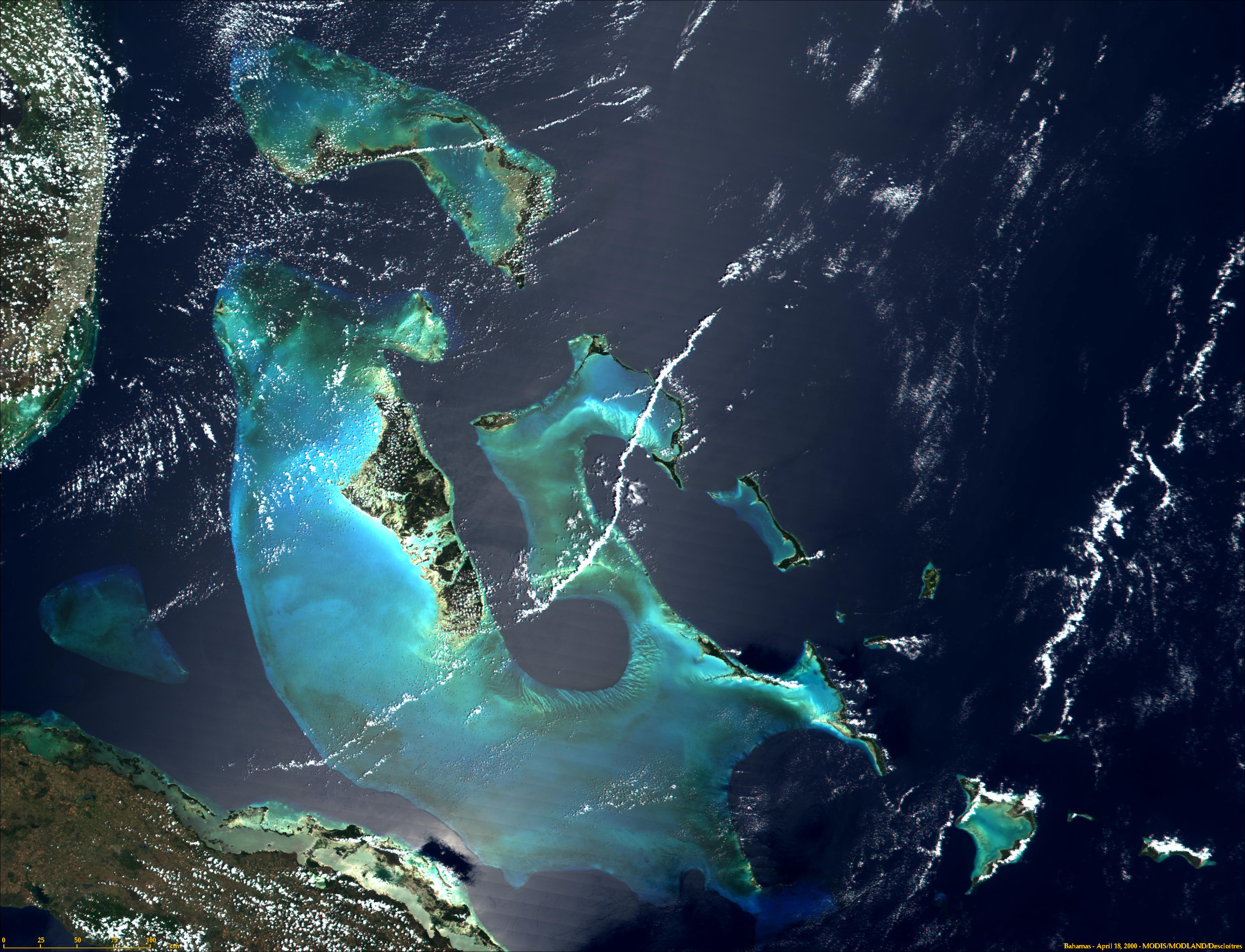 Satellite photograph of the Bahamas.